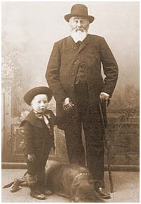 Pietro Axerio Piazza (1827-1905), plasterer, mayor and poet from Rima, Piedmont